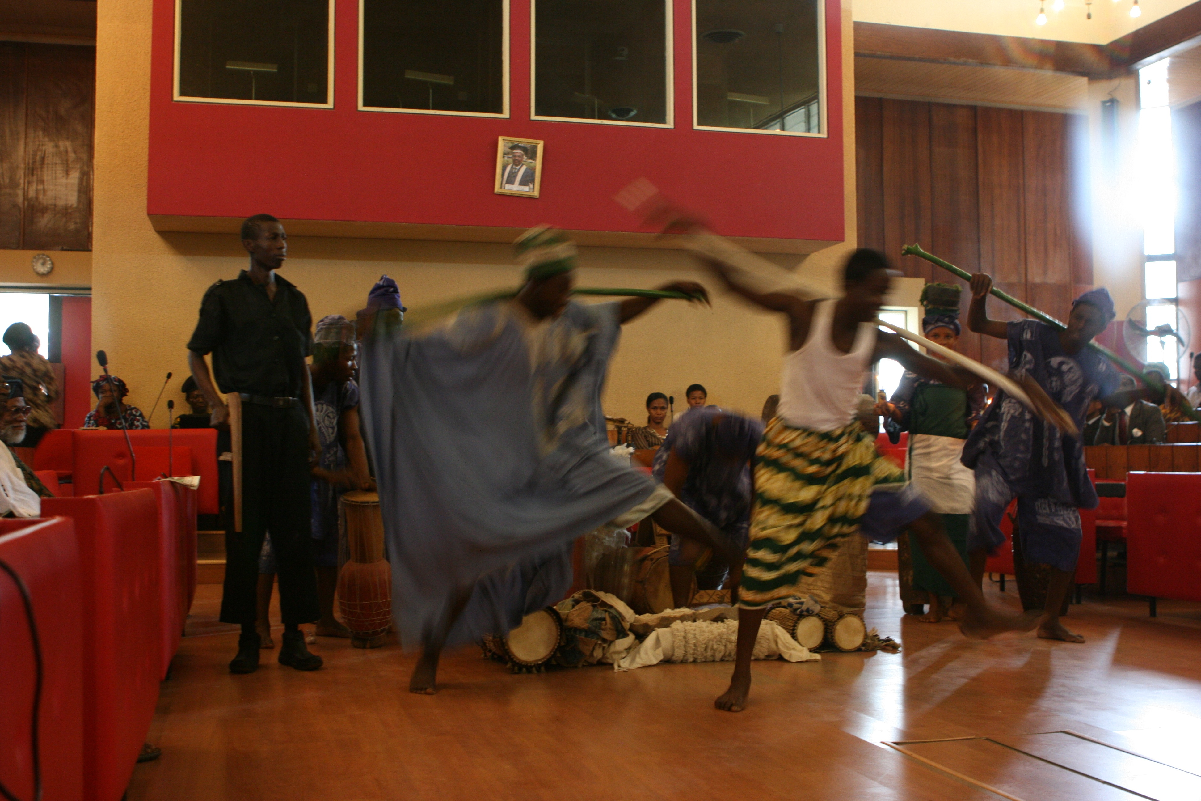 At the university of ibadan. I've been to enough of these conferences to extract two things. 1. They often include some sort of performance. 2. There's always prayer.